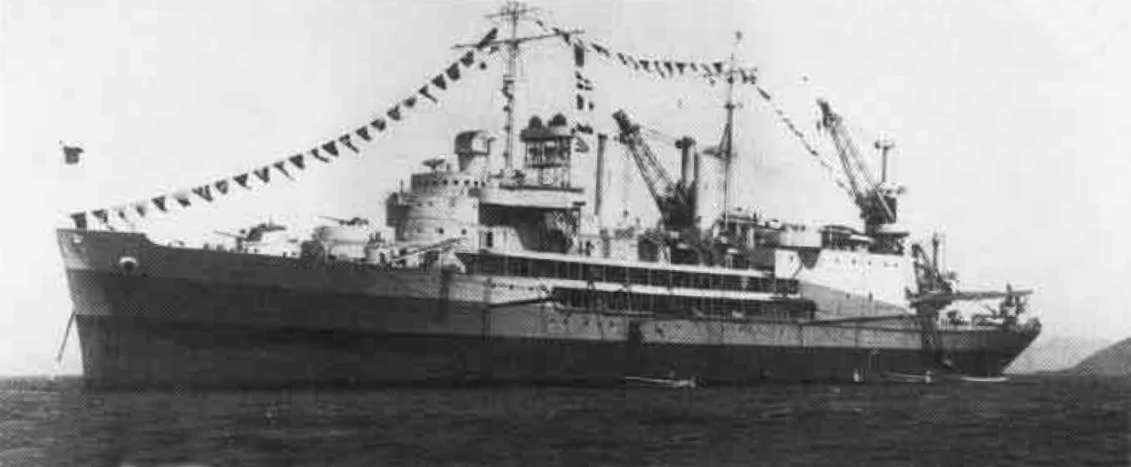 The U.S. Navy seaplane tender USS Albemarle (AV-5) at Argentia, Newfoundland, in June 1941. Note that Albemarle is painted in the seldom used Camouflage Measure 2.